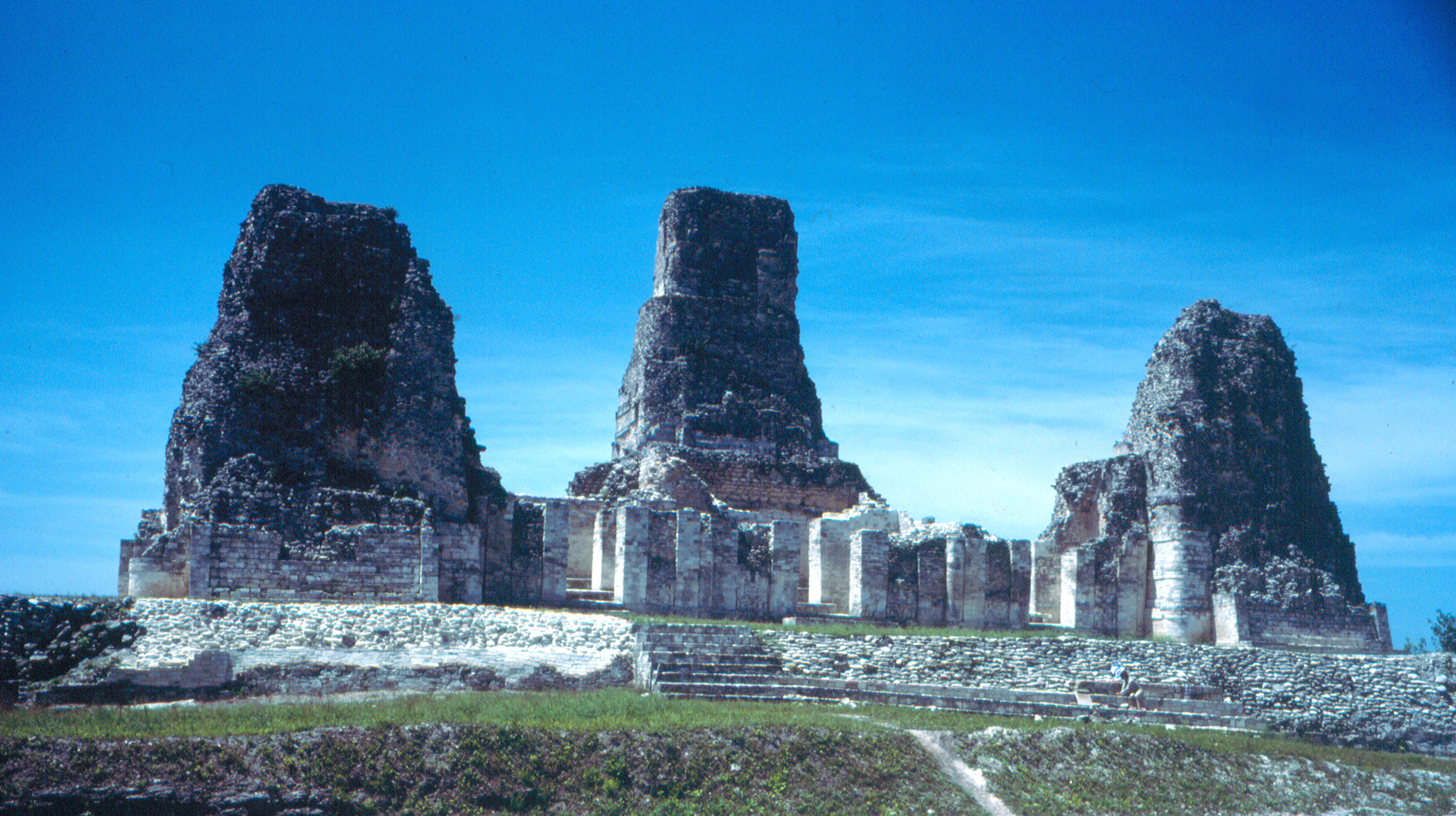 Xpuhil, Campeche, Mexico: Main building of Group I.